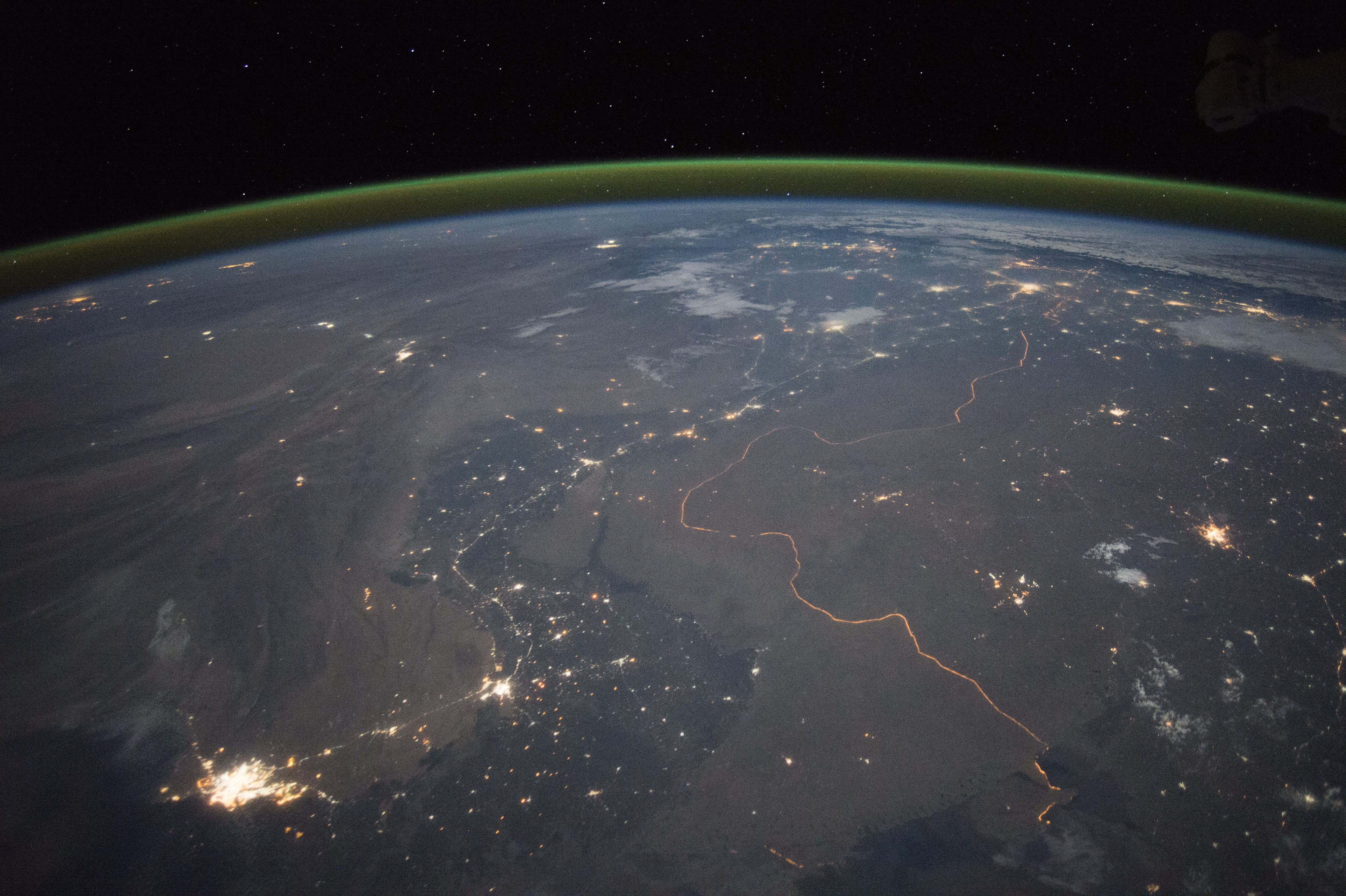 An astronaut aboard the International Space Station took this nighttime panorama while looking north across Pakistan’s Indus River valley. The port city of Karachi is the bright cluster of lights facing the Arabian Sea, which appears completely black. City lights and the dark color of dense agriculture closely track with the great curves of the Indus valley. For scale, the distance from Karachi to the foothills of the Himalaya Mountains is 1,160 kilometers (720 miles). This photograph shows one of the few places on Earth where an international boundary can be seen at night. The winding border between Pakistan and India is lit by security lights that have a distinct orange tone. Another night image (click here) shows the border zone looking southeast from the Himalaya. A daylight view shows the vegetated bends of the Indus Valley winding through the otherwise desert country. More than two millennia ago, Alexander the Great entered the Indus plains in 327 BCE from the northwest. He then spent many months leading his army and navy down the length of the Indus valley shown in this view. From near Karachi, he then began the desert march back to Mesopotamia (modern Iraq). By contrast, it takes the space station just three minutes to travel this distance.